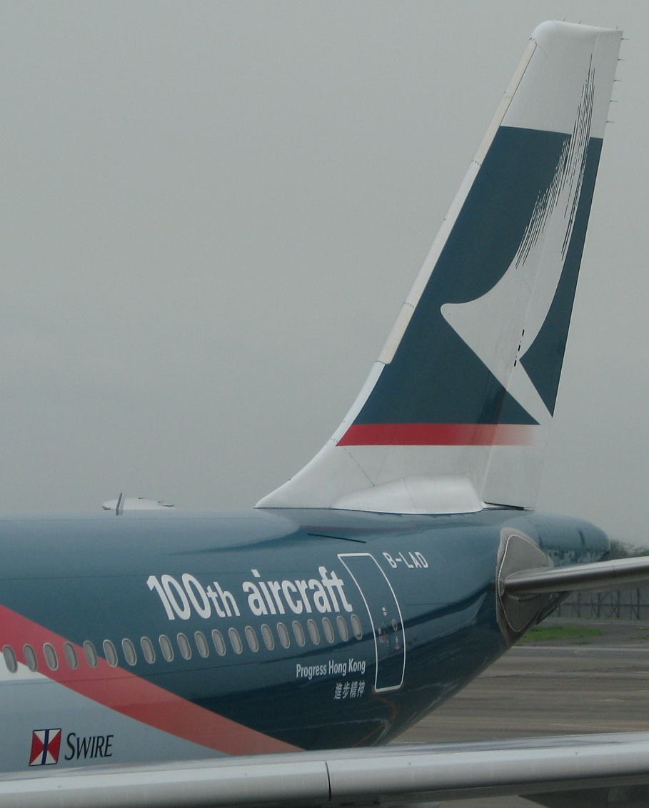 Cathay Pacific's 100th aircraft, "Progress Hong Kong", an Airbus A330-300 with the registration B-LAD